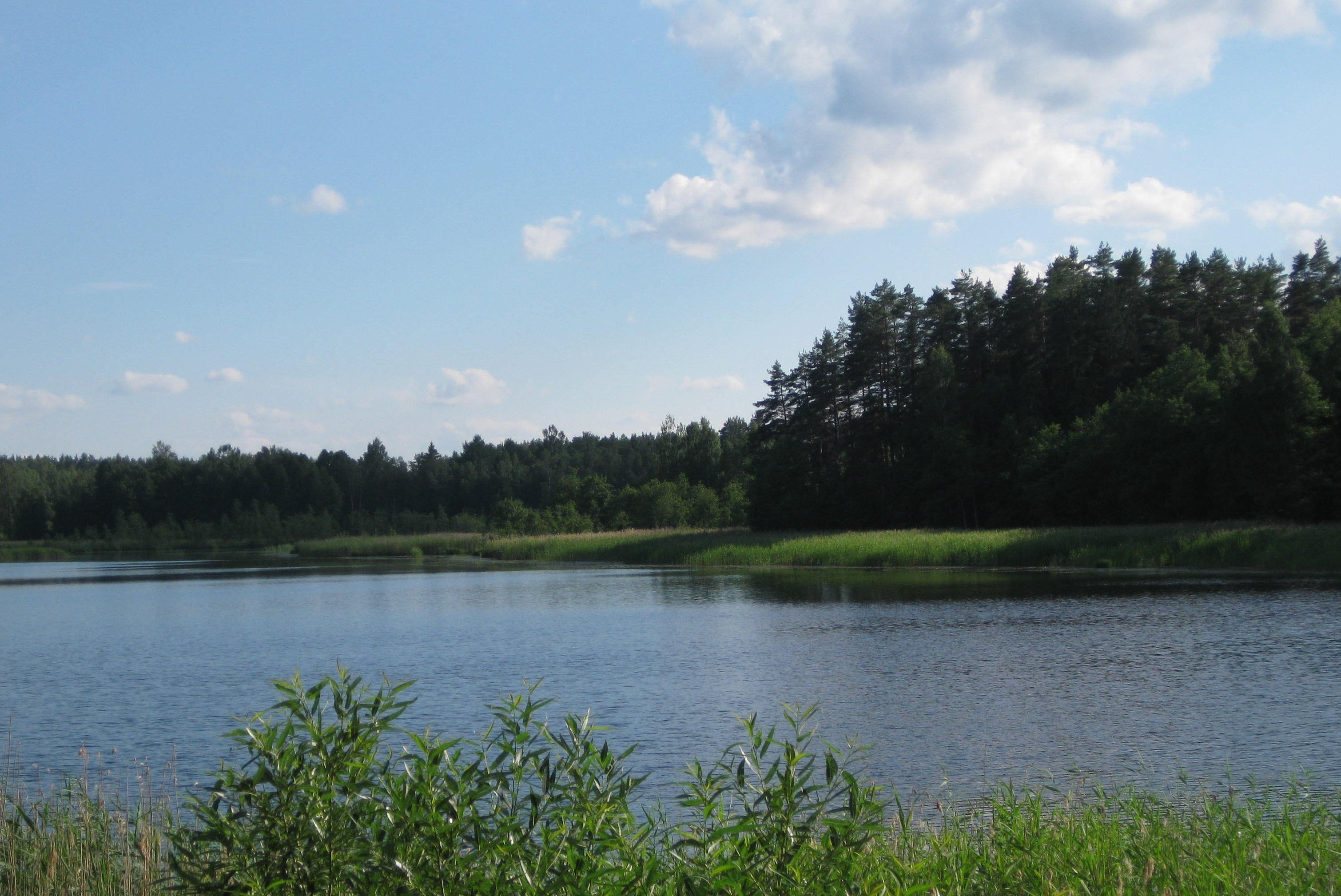 Tīrukšu lake in Latvia